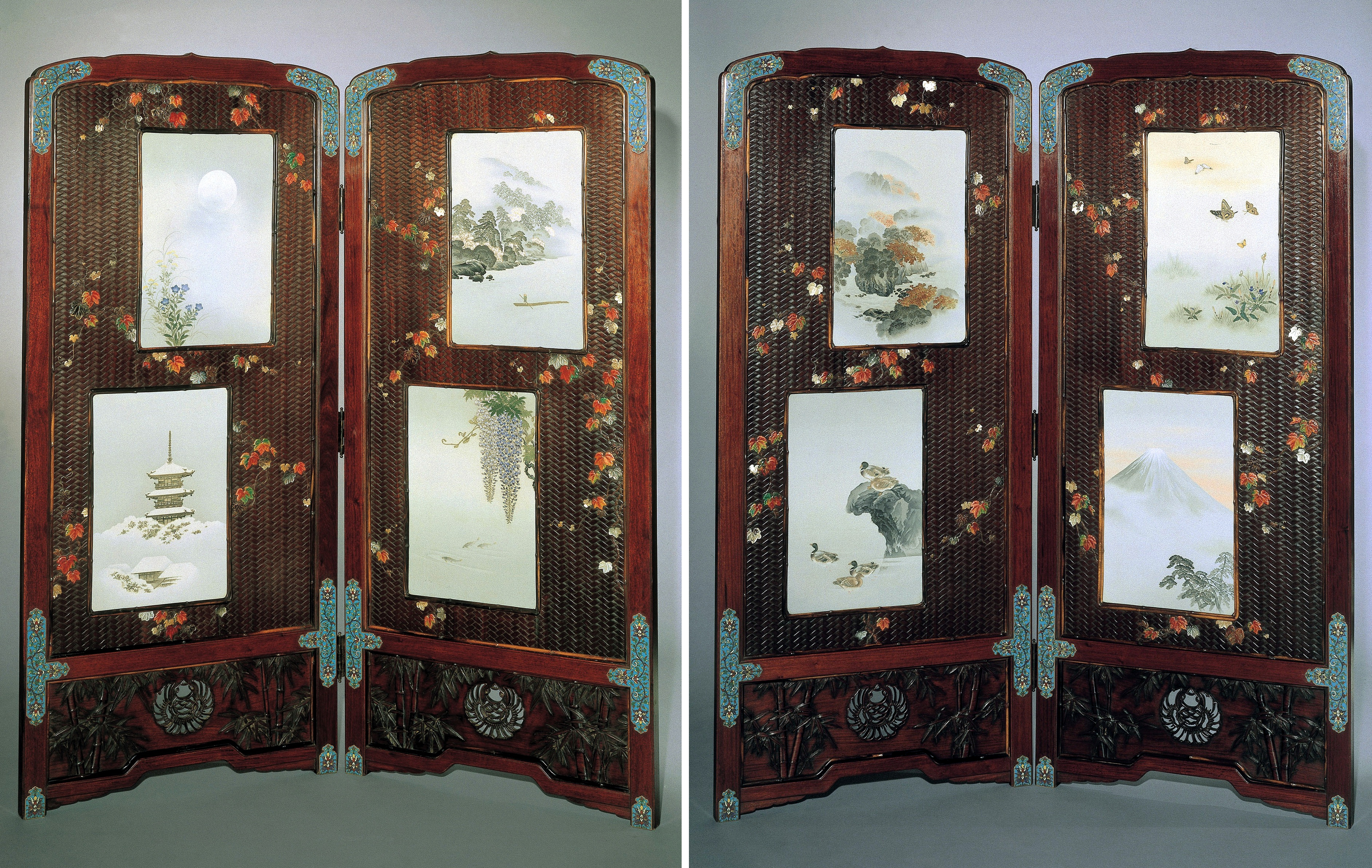 Pair of Two-fold Screens from the Khalili Collection of Japanese Meiji Art. E 40 Japan, Nagoya 1900-1905 186 x 83 cm (each fold) Described at and in J. Earle, Splendors of Imperial Japan: Arts of the Meiji period from the Khalili Collection, London 2002, cat. 252, pp. 356–7.